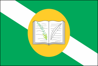 Bandeira de Arari